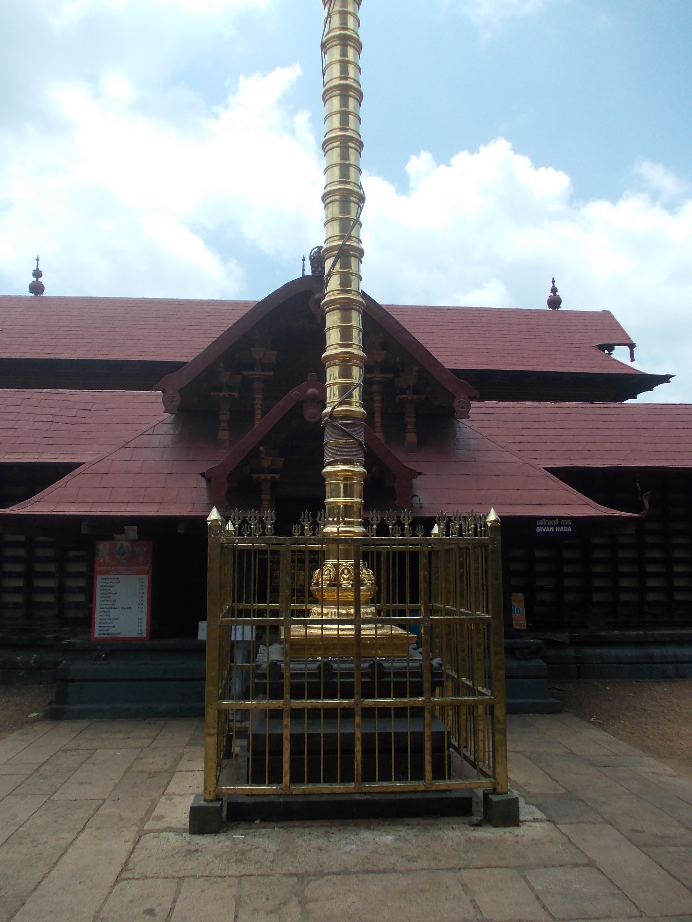 ആനക്കൊട്ടിലിൽ നിന്നുള്ള നേർക്കാഴ്ച